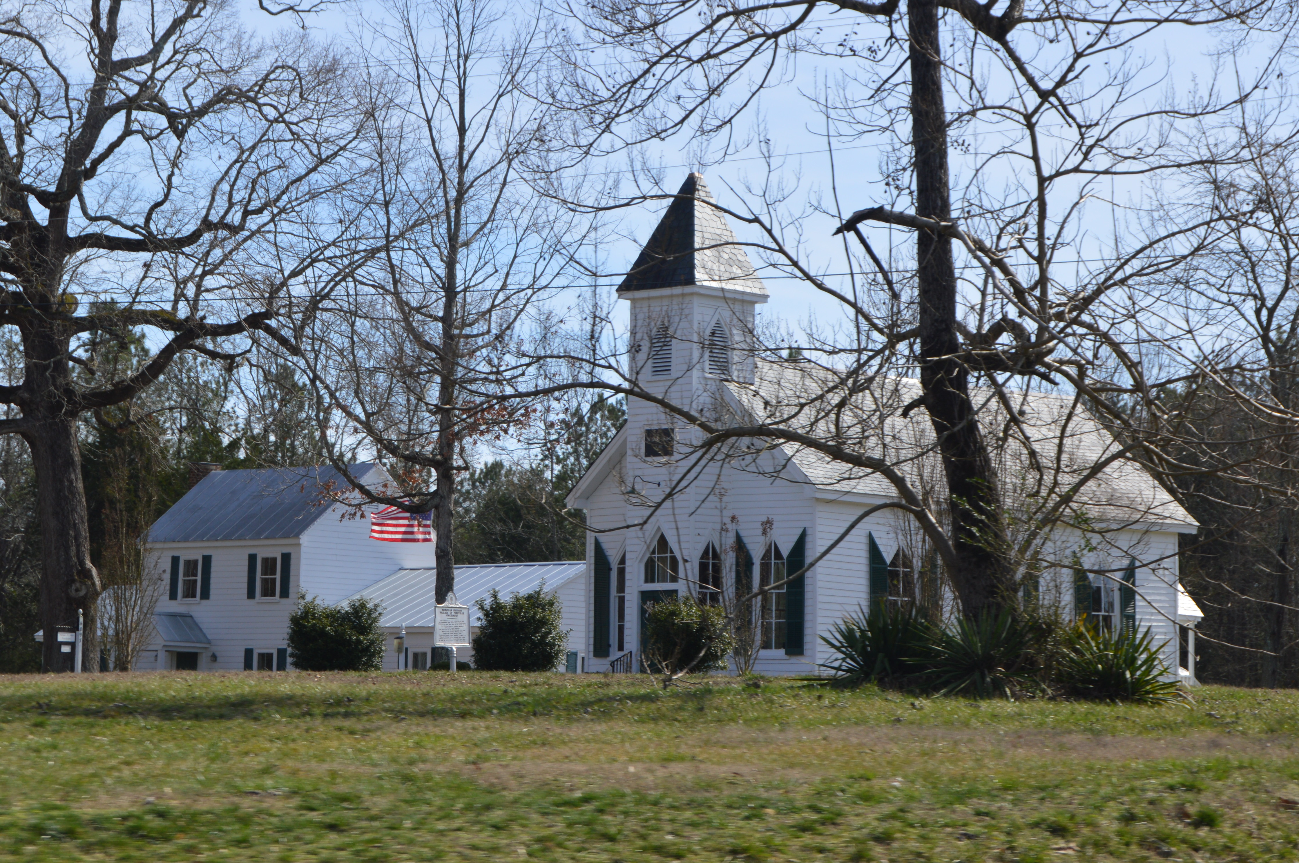 Buildings on Old River Trail, east of U.S. Route 522, at the community of Michaux in Powhatan County, Virginia, United States.